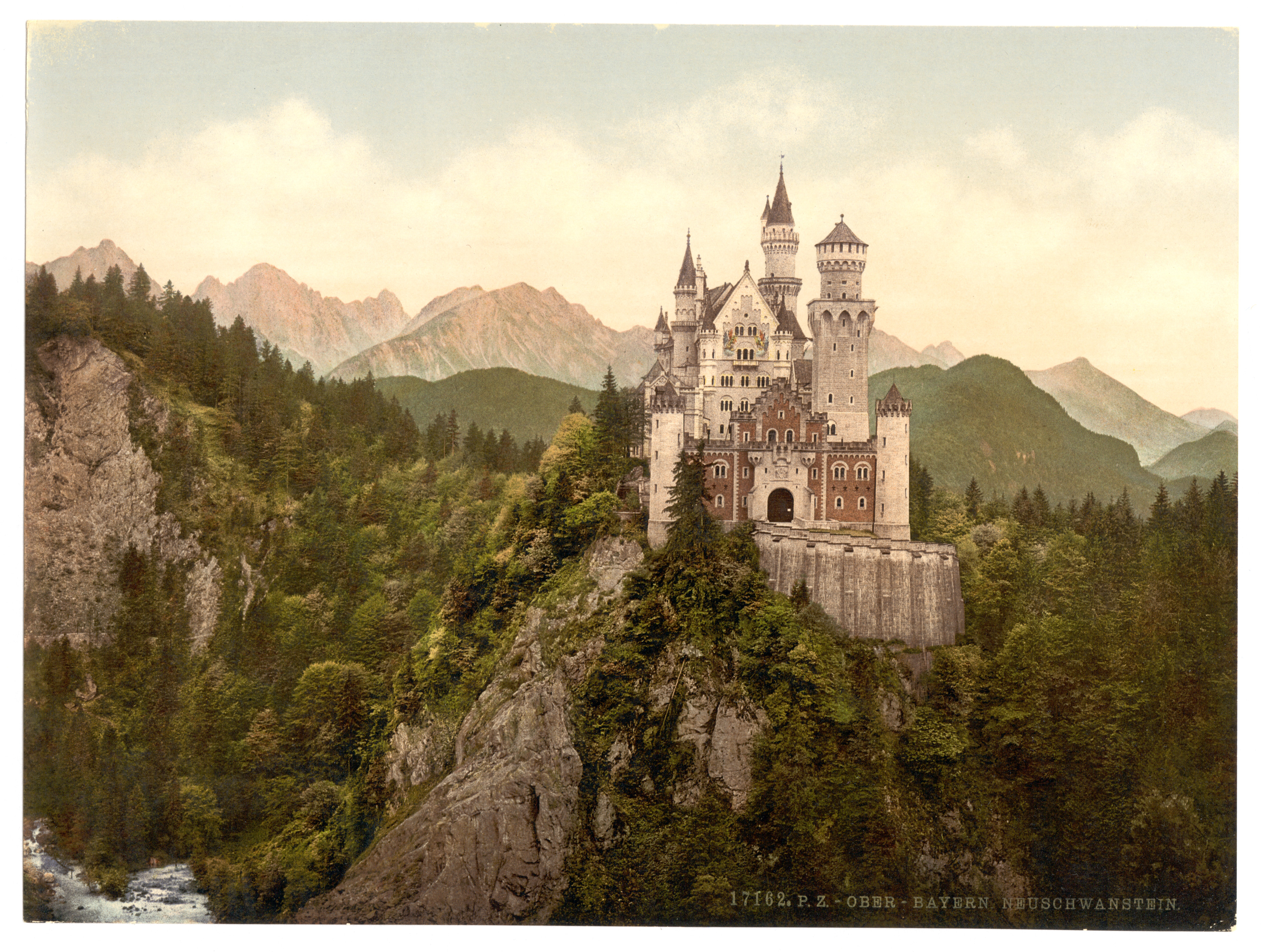 Neuschwanstein, Upper Bavaria, Germany. This image belongs to the Category:Photochrom pictures in their original state. This is an unprocessed image. Its purpose is to show the properties of a photochrom print. Please do not modify this image. Modifications will be reverted.